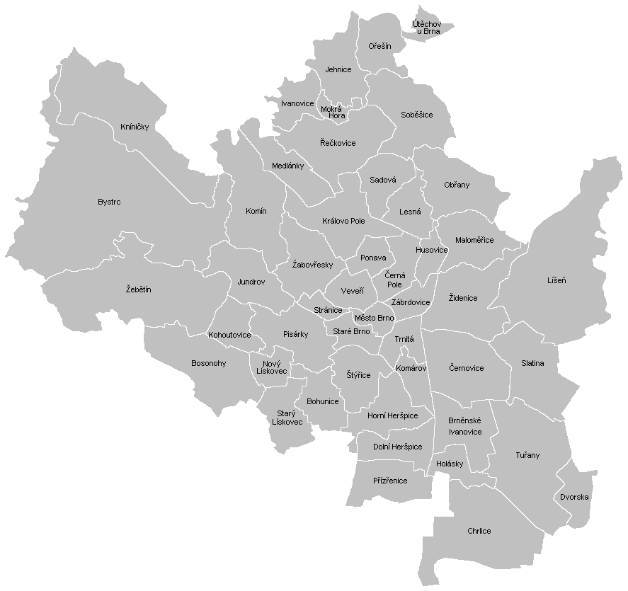 Cadastral map of Brno